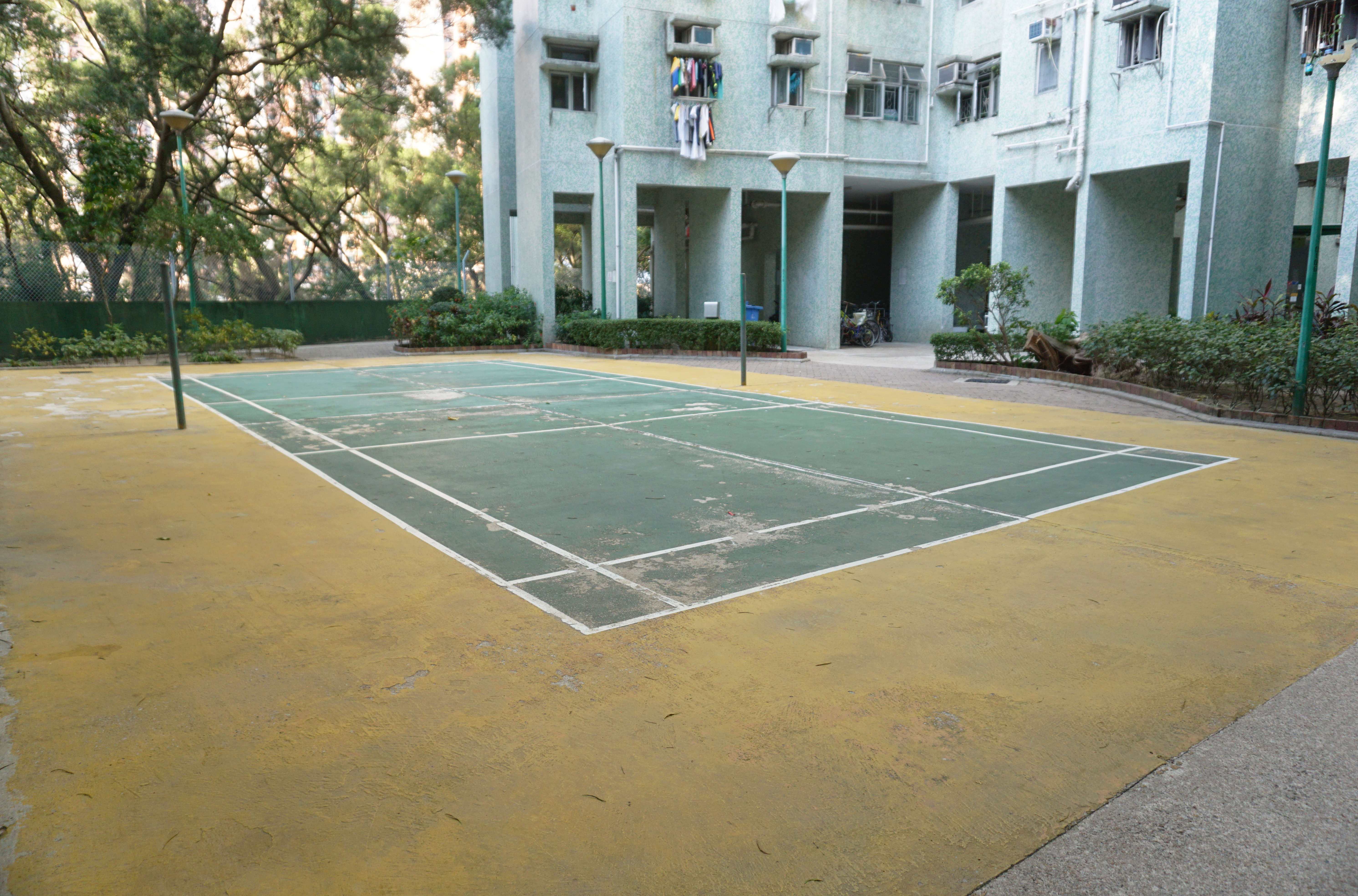 Saddle Ridge Garden in Ma On Shan, Hong Kong.